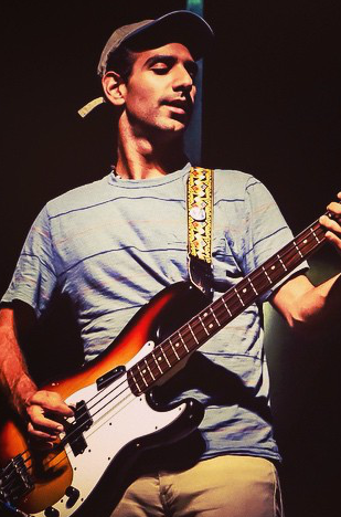 Alex Bleeker performing with Real Estate at the Flying Dog Brewery in Frederick, Maryland on September 27, 2014.